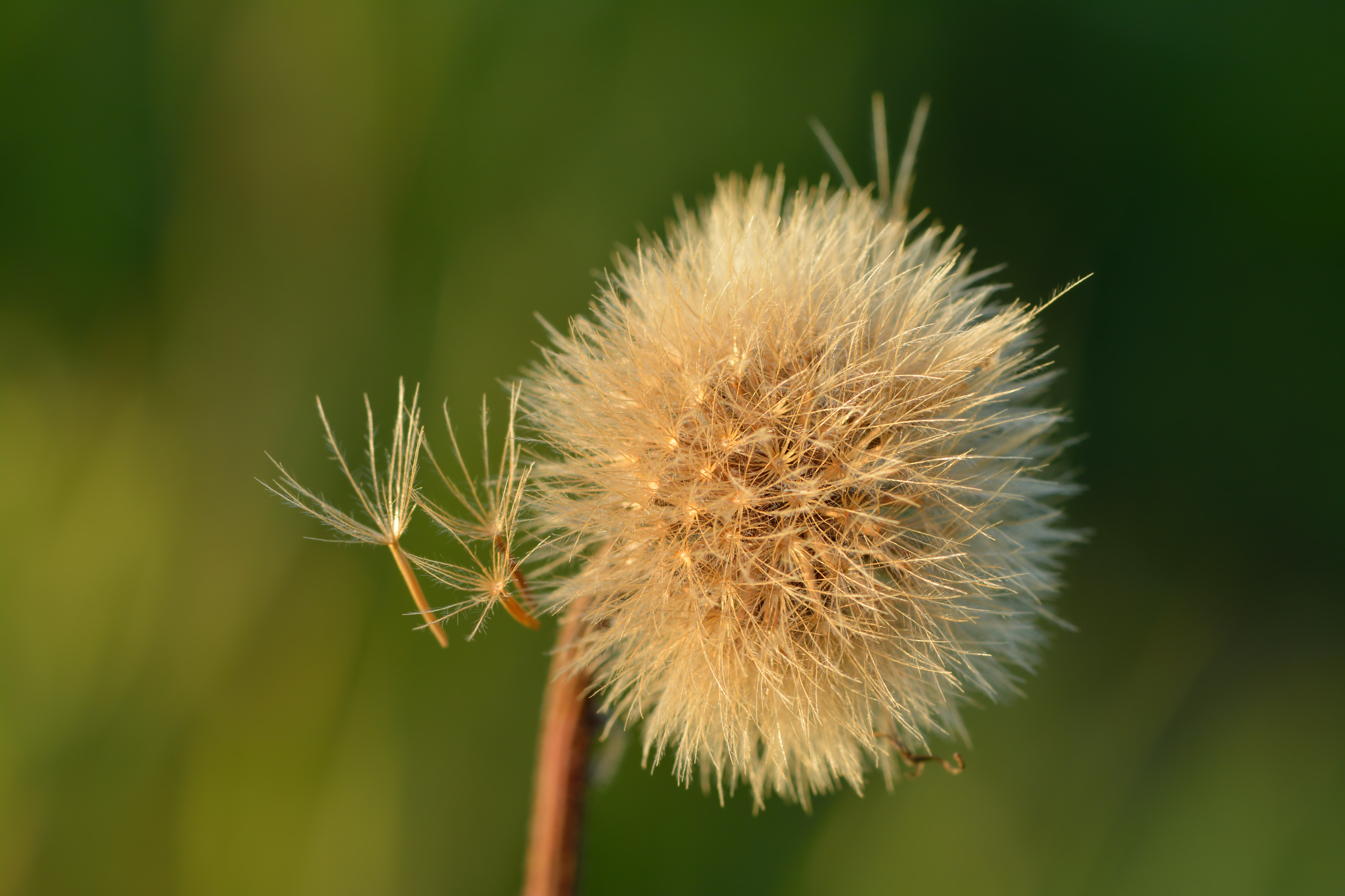 Rough Hawkbit (Leontodon hispidus). Keila, Northwestern Estonia.